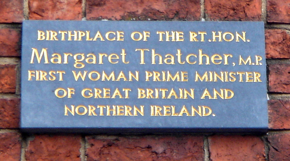 Commemorative plaque, The house where Margaret Thatcher was born, Grantham